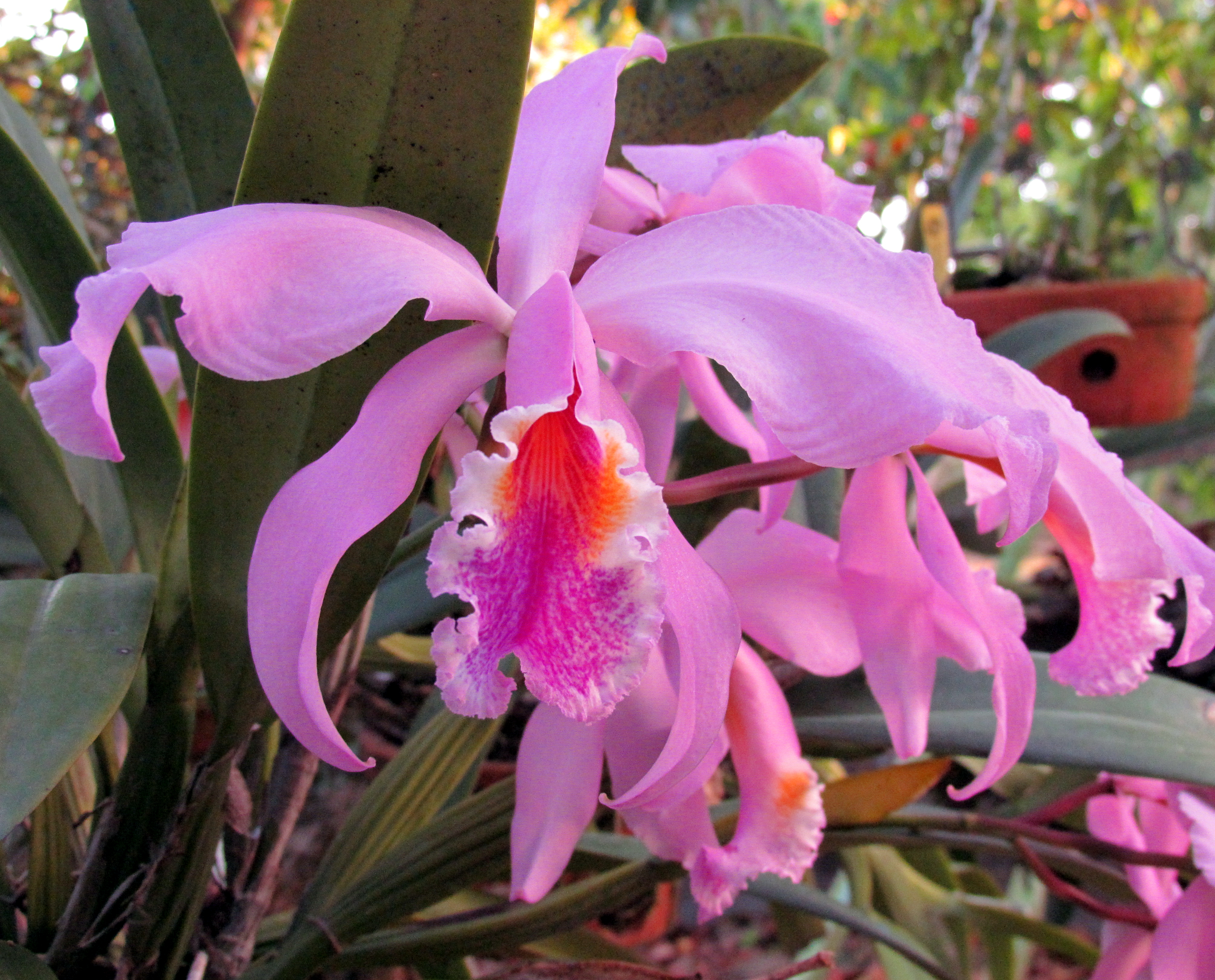 Cattleya gaskelliana from Venezuela